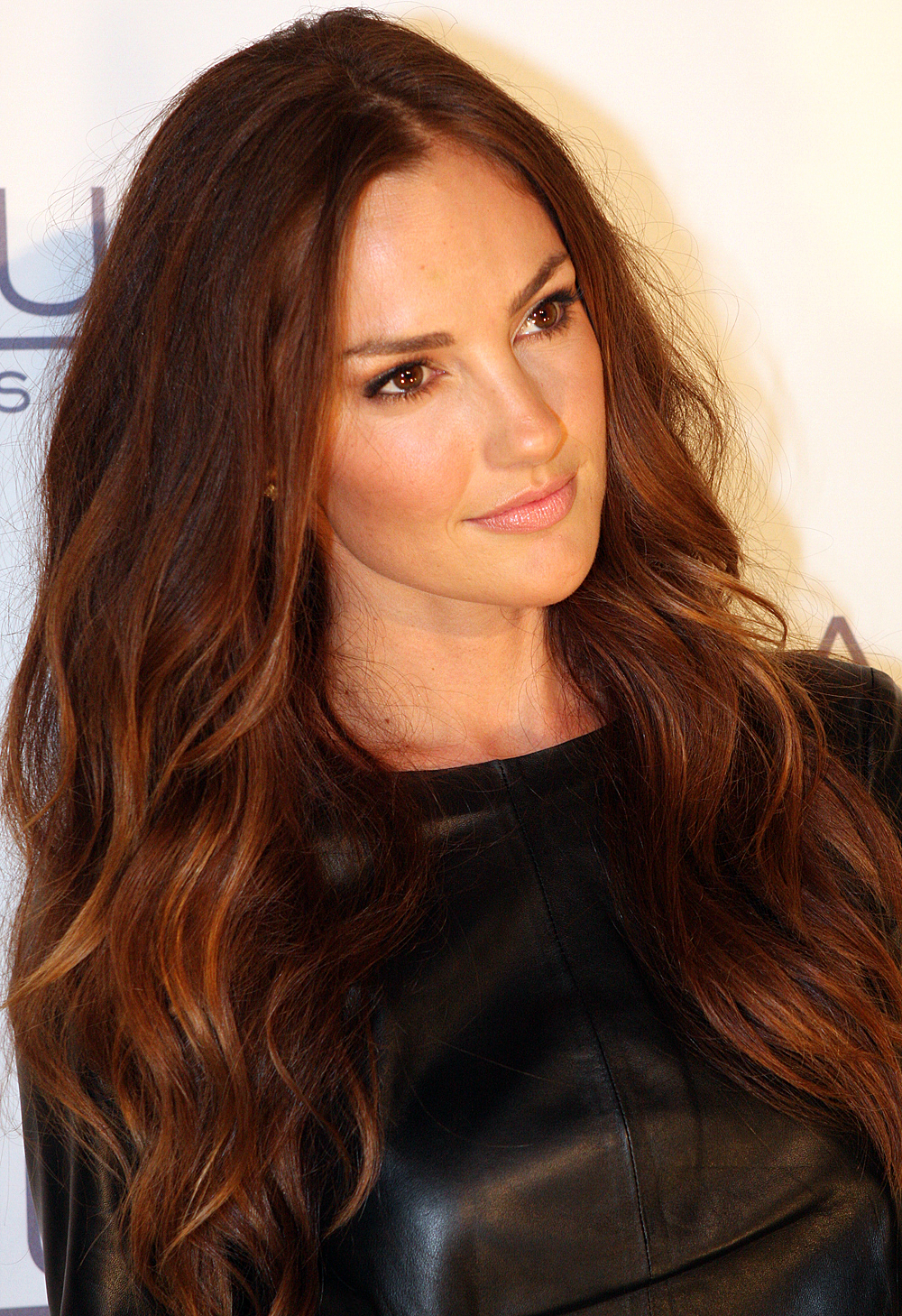 Minka Kelly at the Paris Hilton: Marquee The Star Sydney 2012.